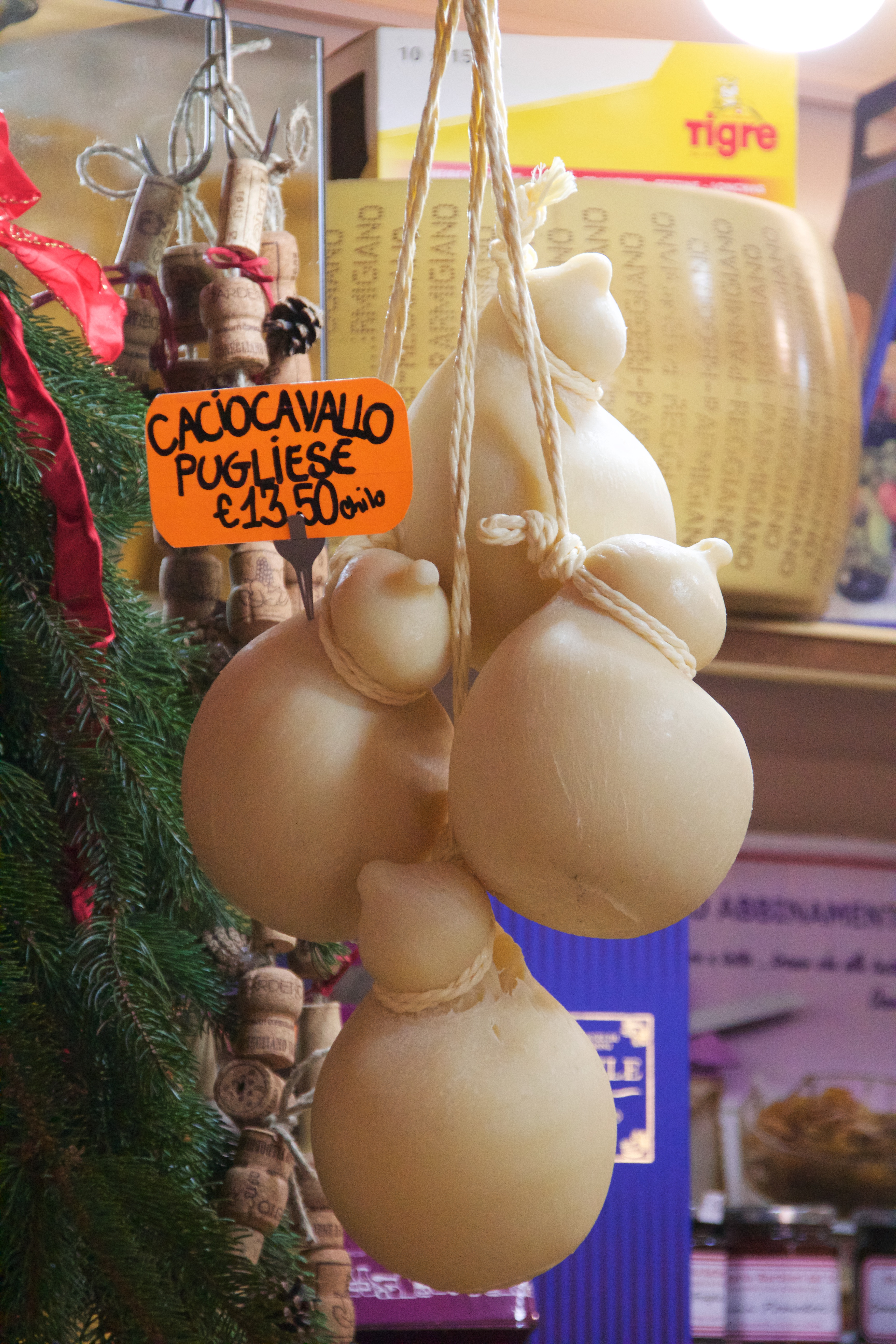 Caciocavallo Pugliese, Bologna, Italy